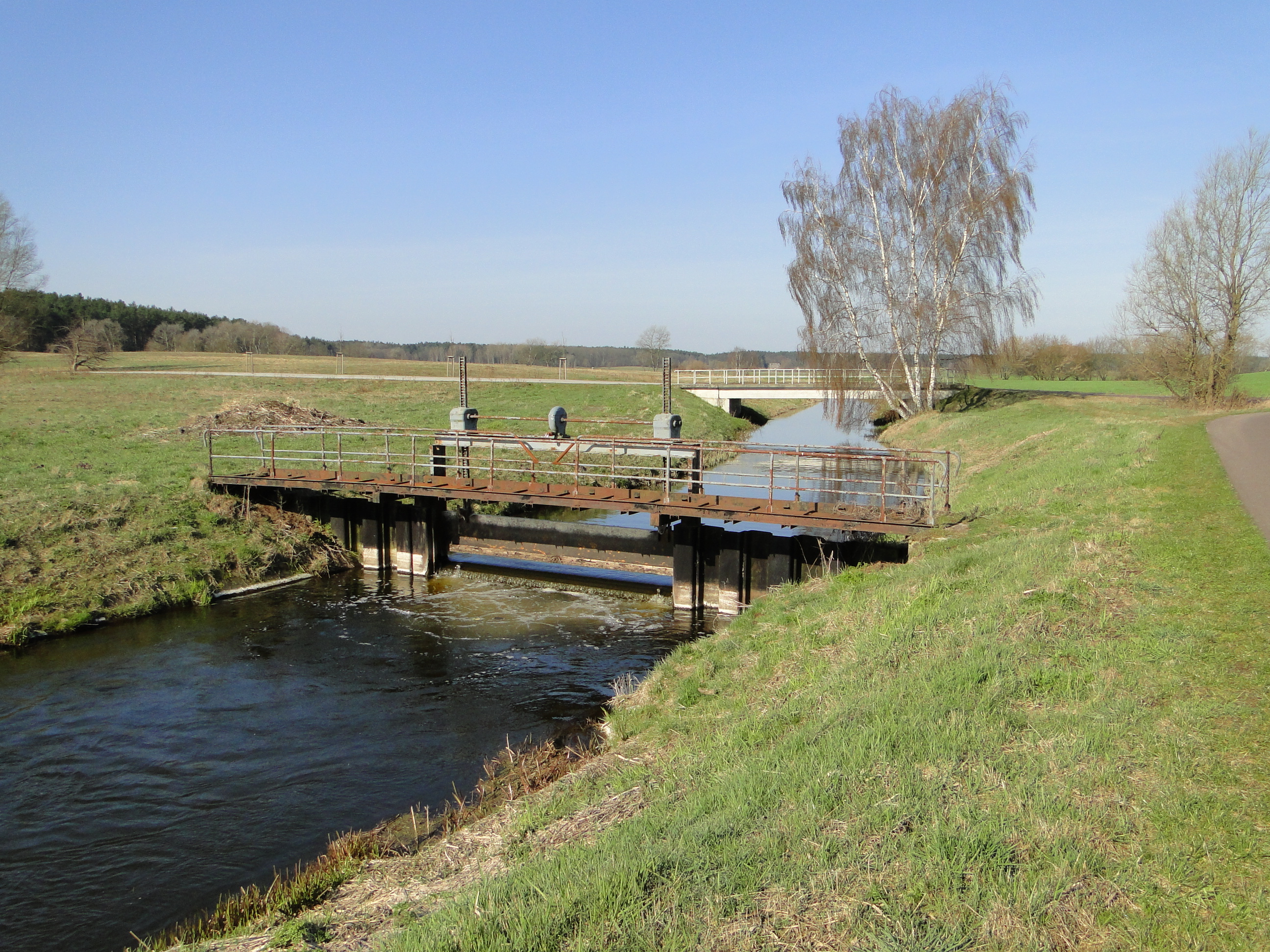 Weir and street bridge at Elde river in Wredenhagen, disctrict Müritz, Mecklenburg-Vorpommern, Germany